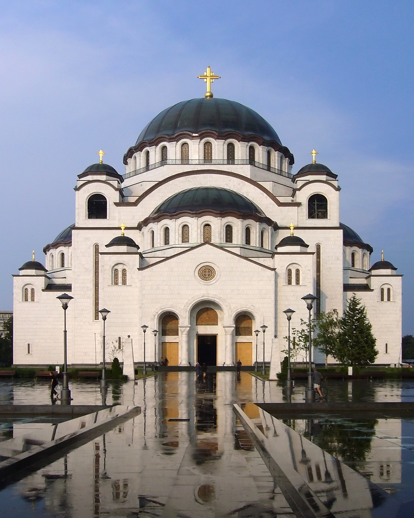 Cathedral of Saint Sava, Belgrade, Serbia.